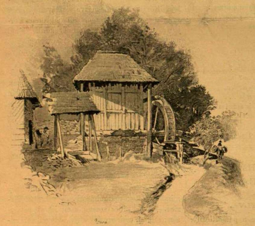 Capital of Gold Country. Roșia Montană, Alba. Romania.